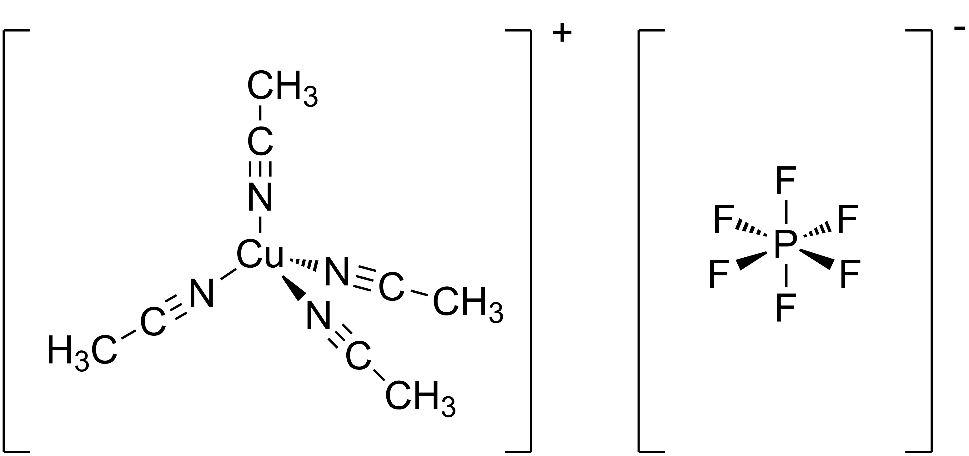 Chemical structure of Tetrakis(acetonitrile)copper(I) hexafluorophosphate